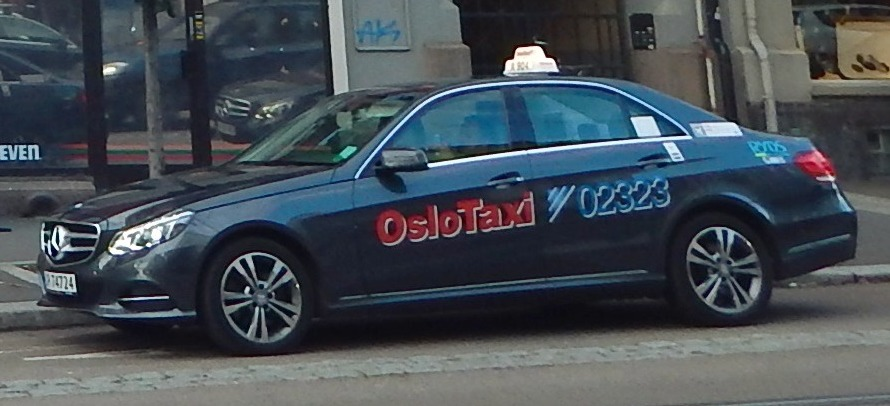 Vogts gate 52 at Torshov, Oslo, Norway. Apartmentbuilding from 1902, architect Oscar Dehkes. 7-Eleven store on groundfloor.